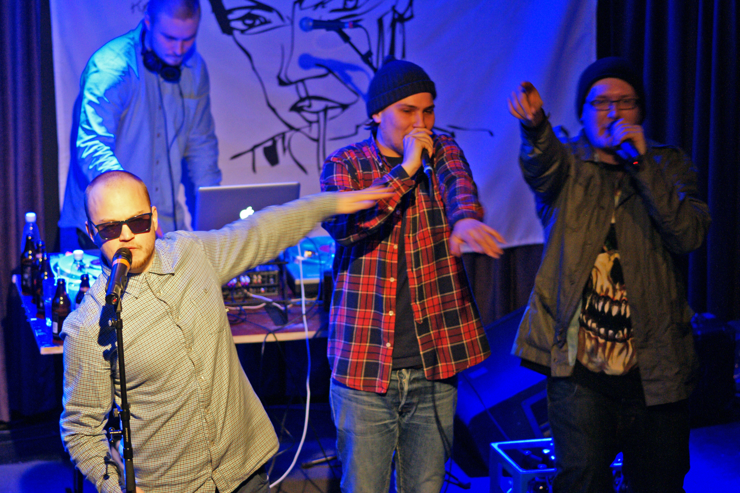 Ruger Hauer performing at Bar Kino, Pori, Finland.